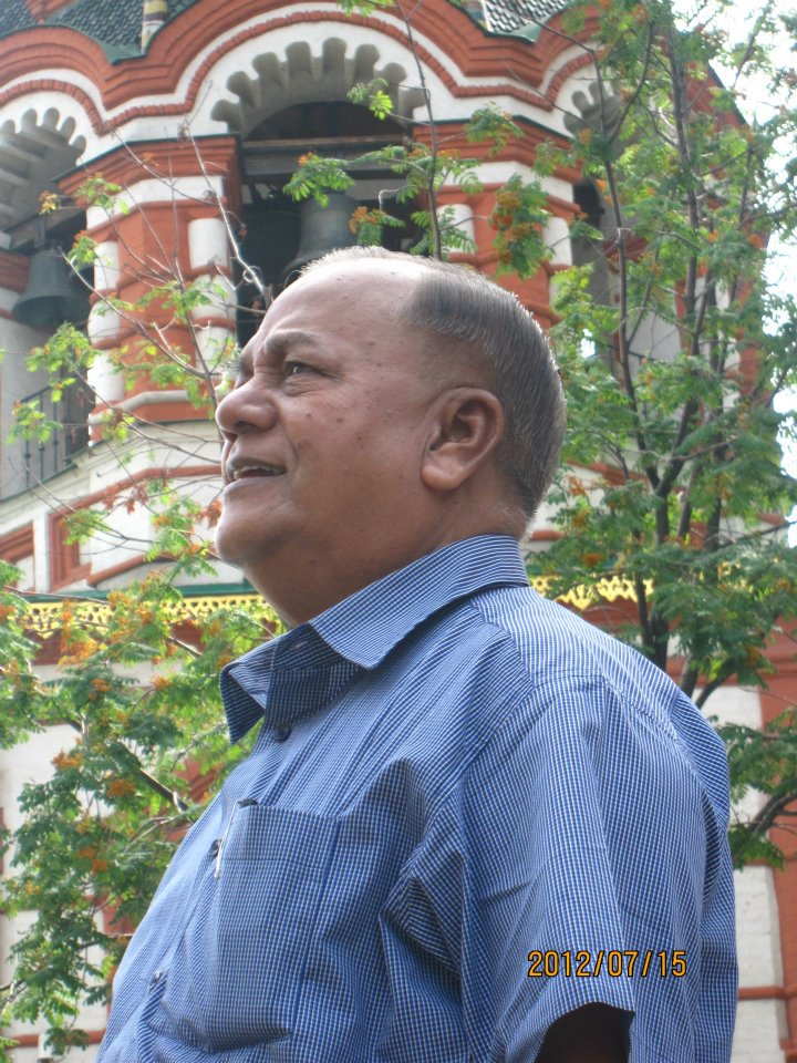 During short term visit of Moscow in 2012